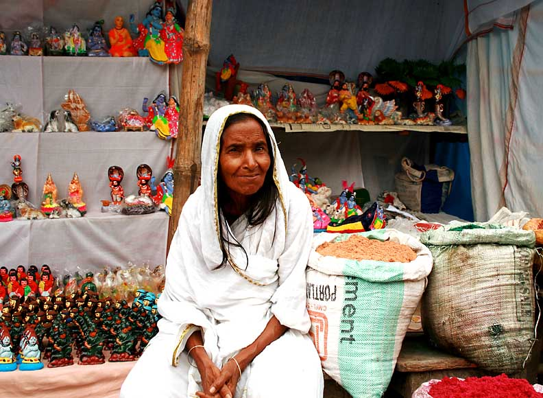 Here she is the toy-seller at the potter's colony in Calcutta with her hand-made clay toys in the background. From her white saree one can tell that she's a widow. But in dying her hair black she makes quite a statement. Widows in India were so despised that even till about 60 years ago, they'd be burnt alive on their dead husbands pyres. However, even when this practise, called sati, was banned, widows continued to face social ostracization. The white saree meant sexual abstinence and a withdrawal from all sensory experiences. Indeed they were meant to completely disregard their own appearance and pleasures. But this woman's black hair and quizzical expression is like a non-verbal statement against that diktat. I was also quite surprised to see that clay toys are still made -- since most in the market are of plastic now. There is a famous sanskrit play of the 2 B.C. called the "The Little Clay Cart" Sanskrit_drama#Mricchakatika_.28The_Little_Clay_Cart.29 This photo is also a part of an international campaign against the practices like female feticide, infanticide and dowry murders, that have resulted in the elimination of more than 50 million women from India's population. Please voice your protest by registering as member of the group at For more on widows in India check out our photo/information gallery at